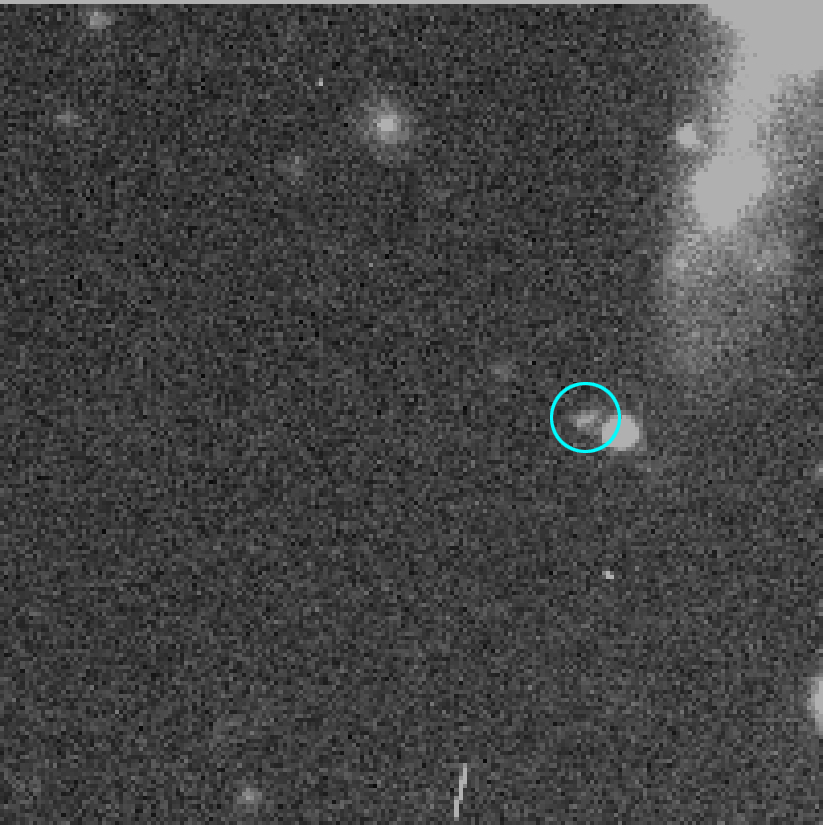 8-minute exposure photograph of S/1999 U 3 (Prospero), taken by the Canada-France-Hawaii Telescope on 18 July 1999.